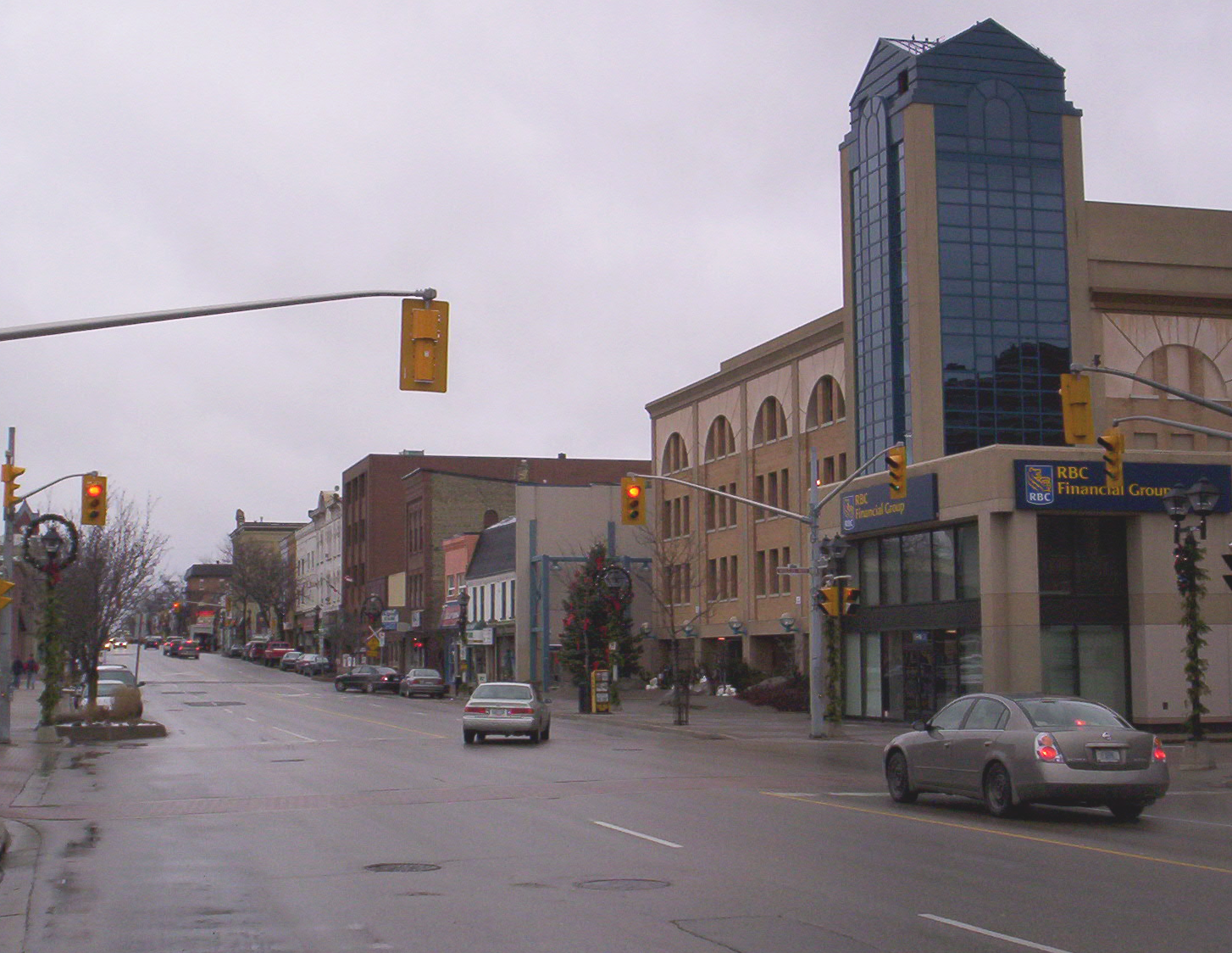 King Street South, at Willis Way, looking north toward Erb Street, in Uptown Waterloo, Ontario, Canada. Personal photo by user:Radagast.